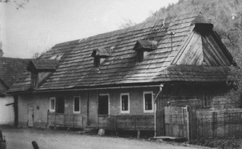 J. G. Tajovský (1874 – 1940)– The Mother house